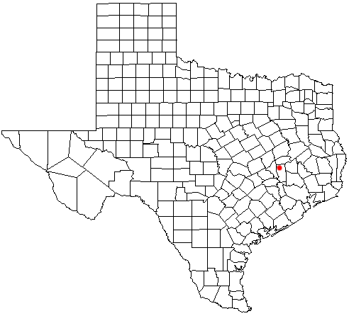 Iola, Texas location map; created with the GIMP. Made by User:Acntx.